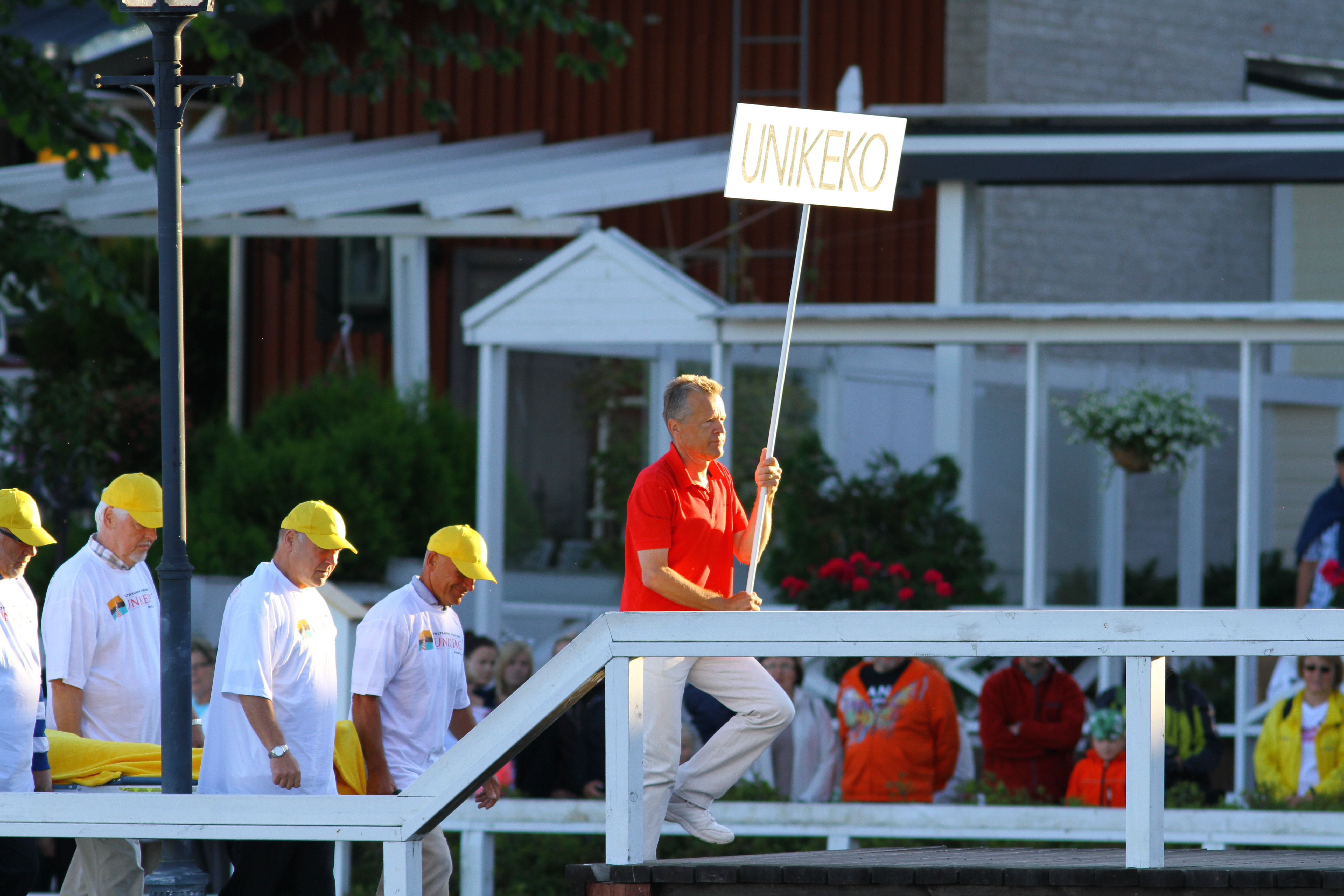 National Sleepy Head Day (Finnish: Unikeonpäivä) in the city of Naantali, Finland.